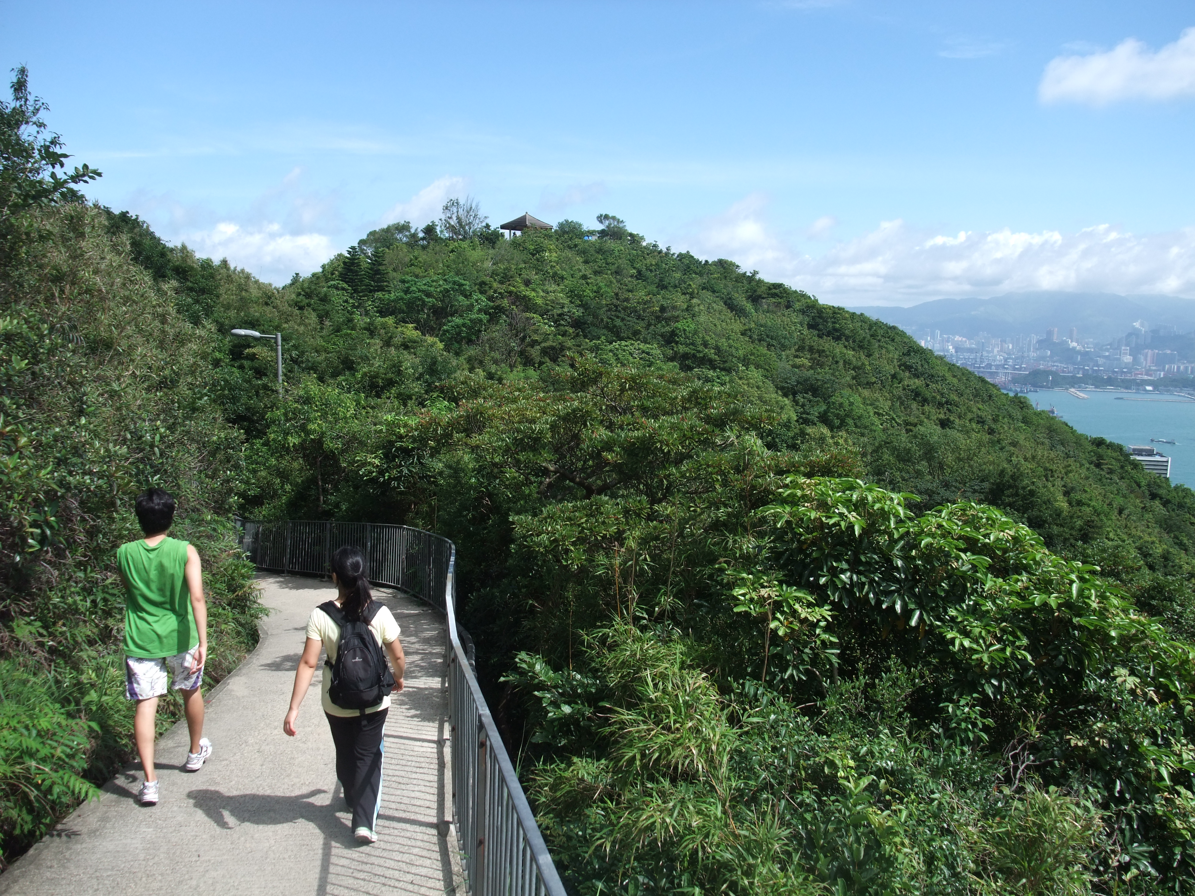 Photo of Lung Fu Shan